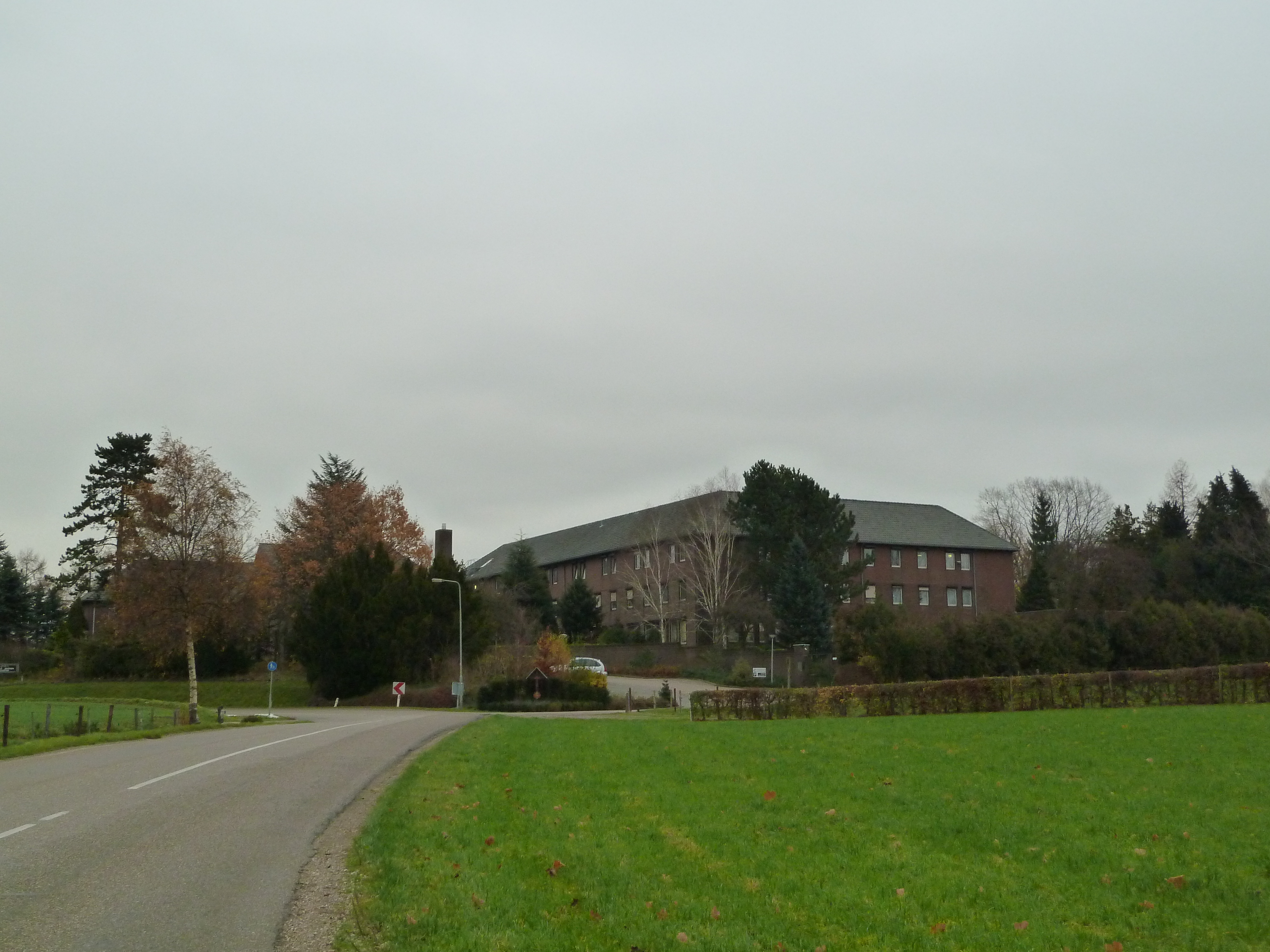 Arnold Janssen Klooster, Wahlwiller, Limburg, the Netherlands